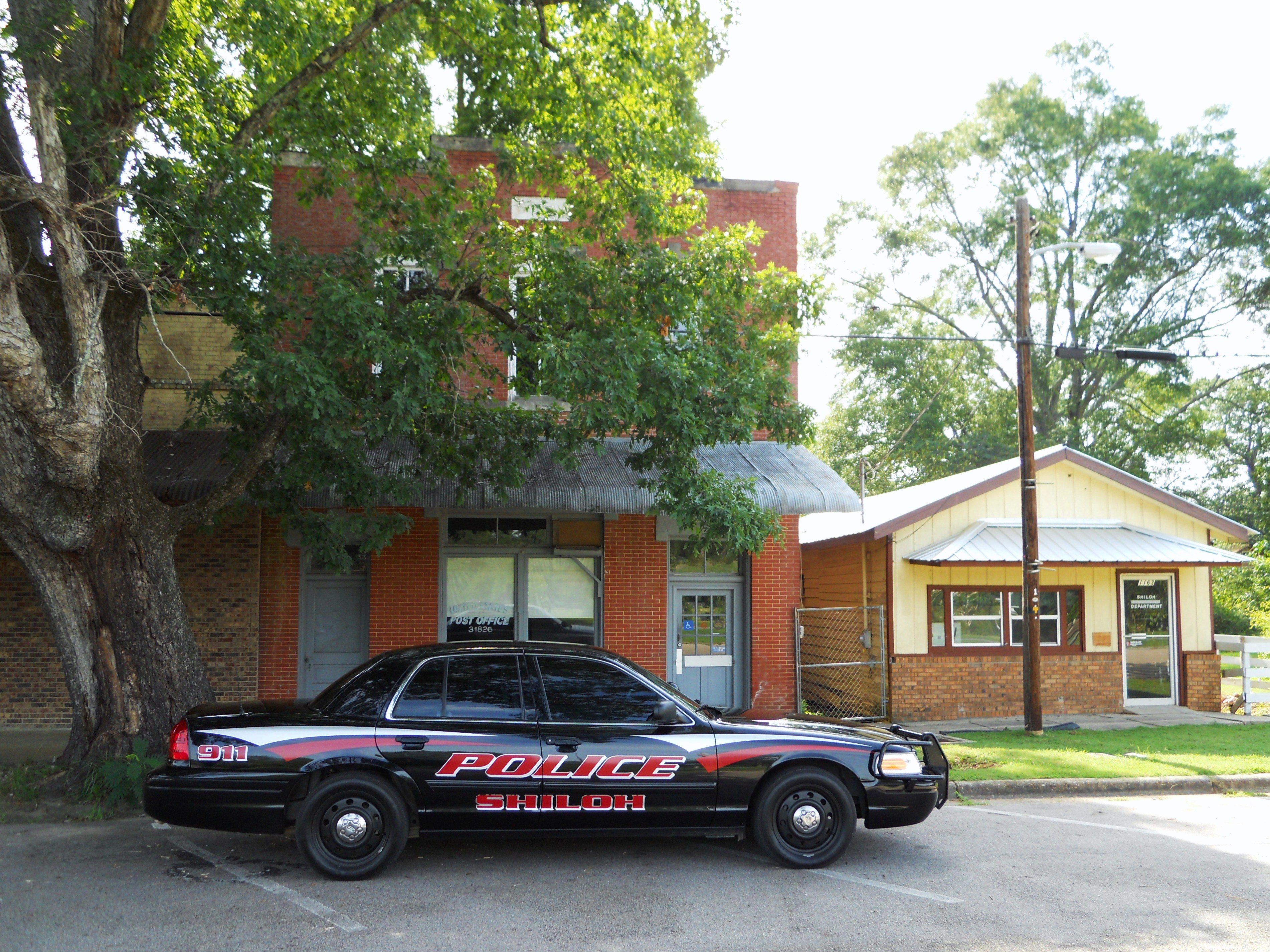 This is a photograph of Shiloh, Georgia.